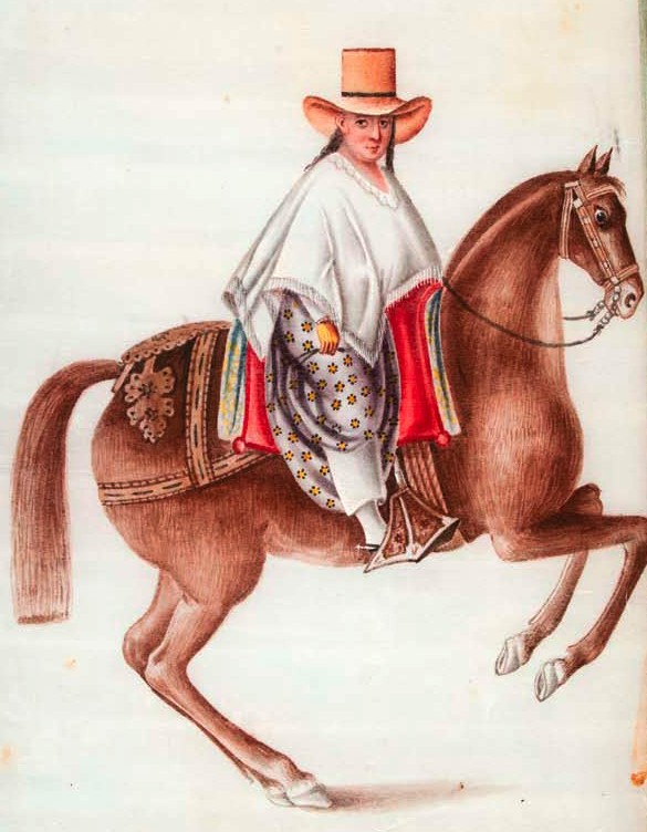 Woman in White Poncho on Horseback in Lima,Peru, by an unknown artist working in Canton, China in the mid-19th century. Watercolor on pith paper, with silk ribbon. 11 ½ × 8 ½ in. Collections of Museum of International Folk Art, Santa Fe.